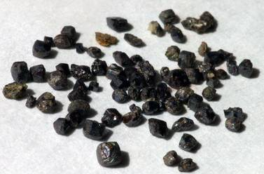 Tausonite mineral, Mineralogy museum, St. Peterburg, Russia